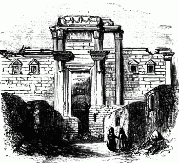 Temple of the Sun at Palmyra